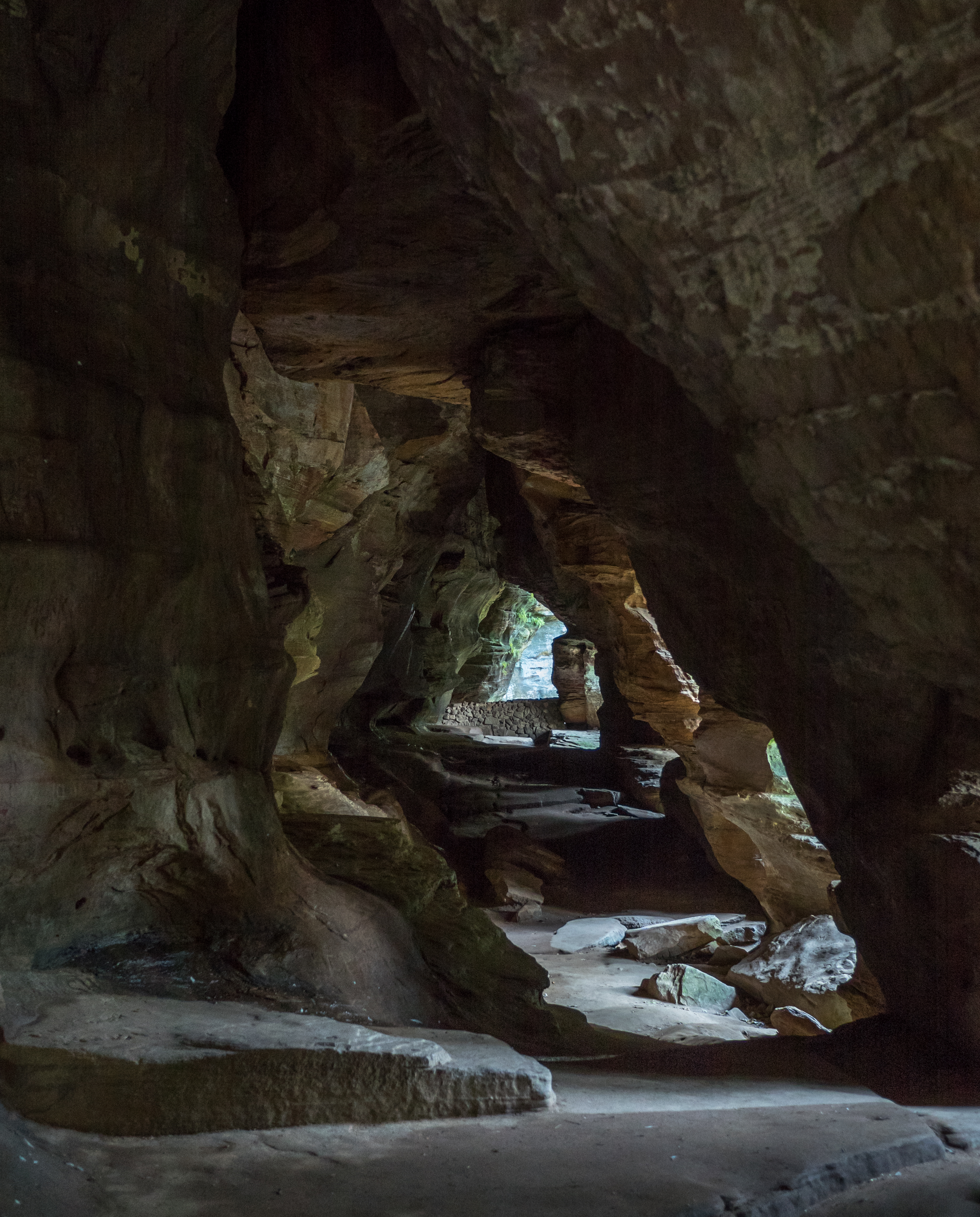 Rock House area of Hocking Hills State Park.